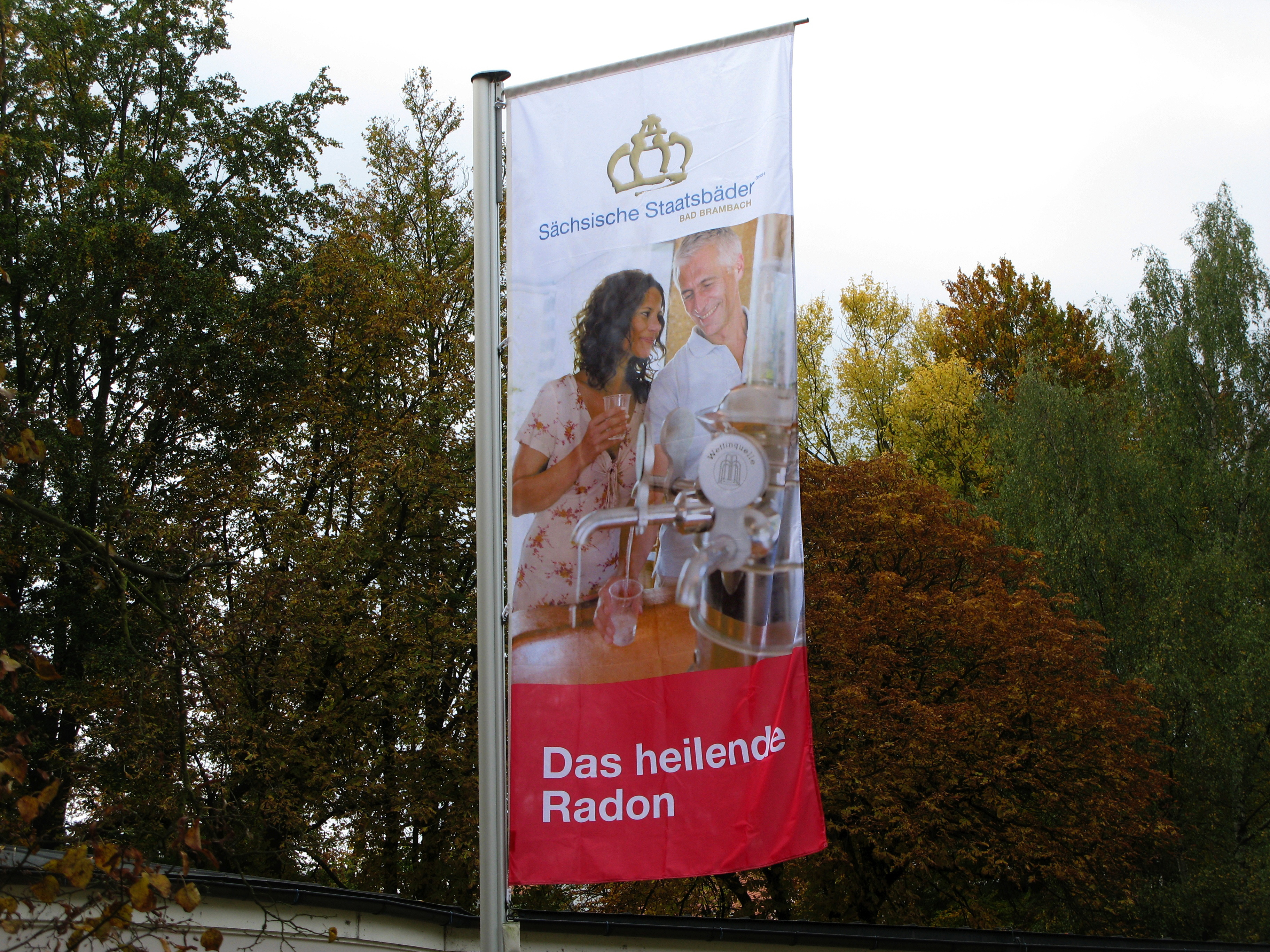 The healing Radon, advertisement of the Saxon state baths in Bad Elster in the year 2016. Bad Brambach possesses with the Wettinquelle one of the strongest Radon sources of the world